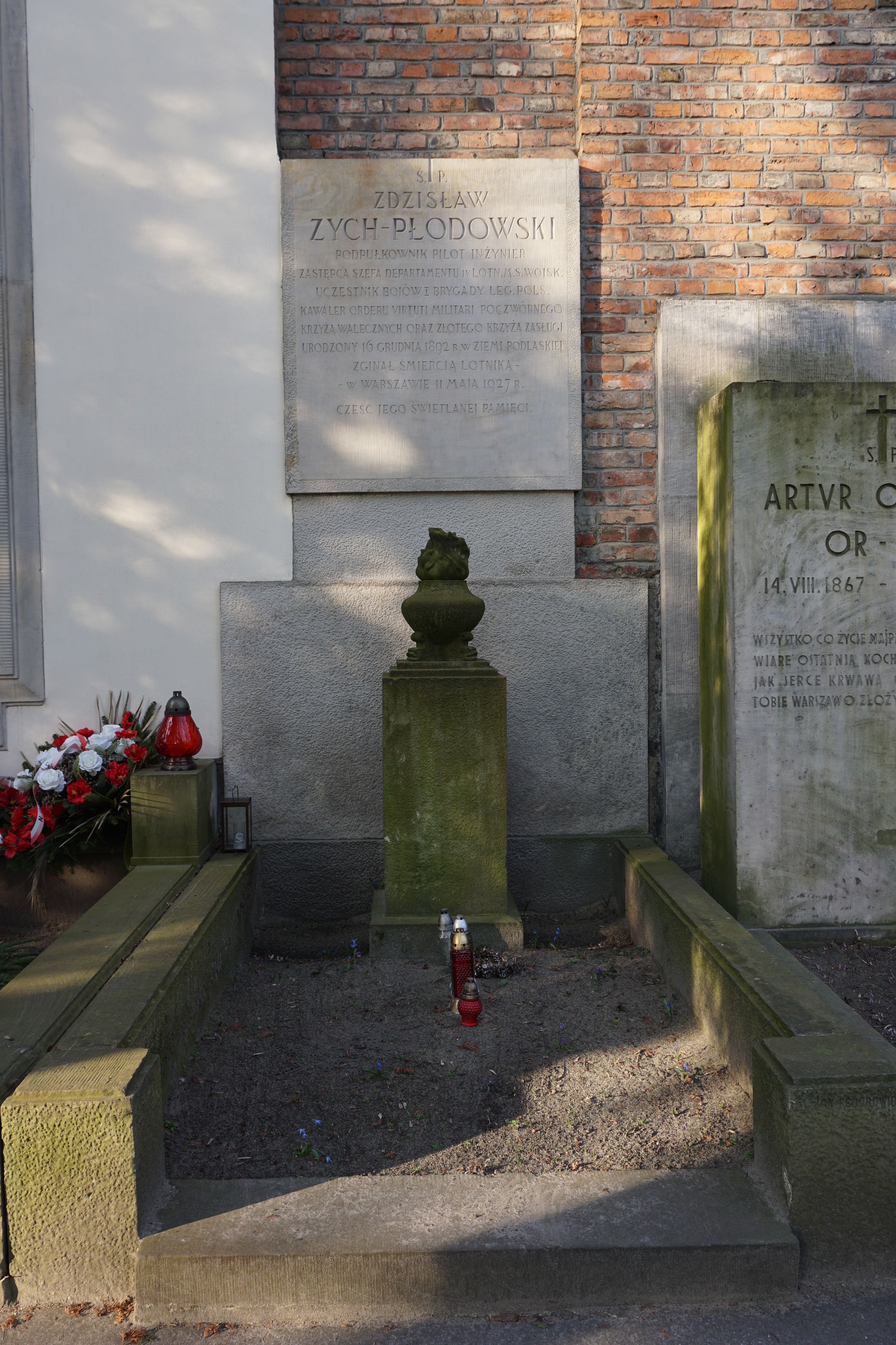 The grave of Zdzisław Zych-Płodowski at the Powązki Cemetery (Avenue of Deserved, grave 6)